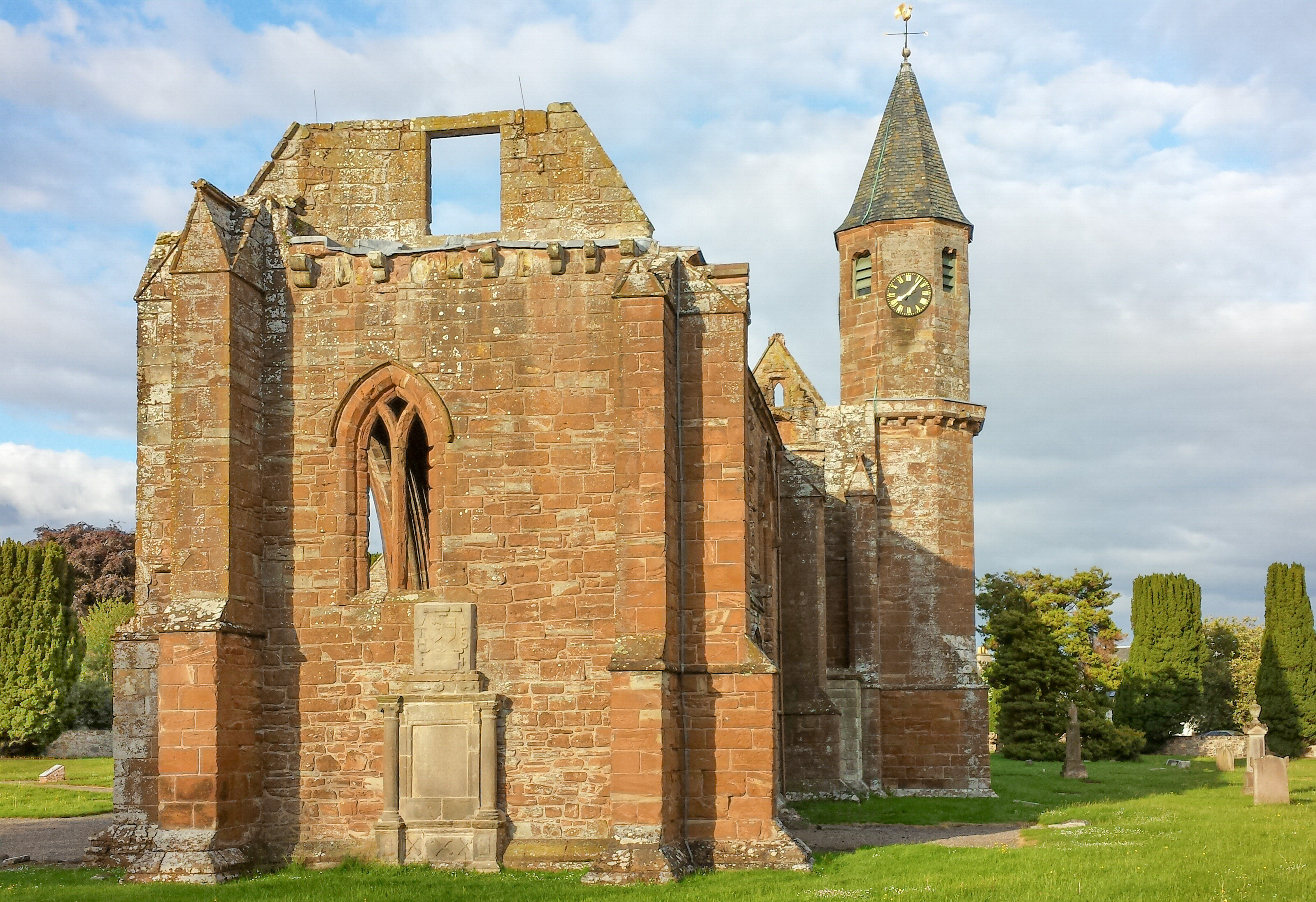 Fortrose Cathedral in the Scottish Highlands